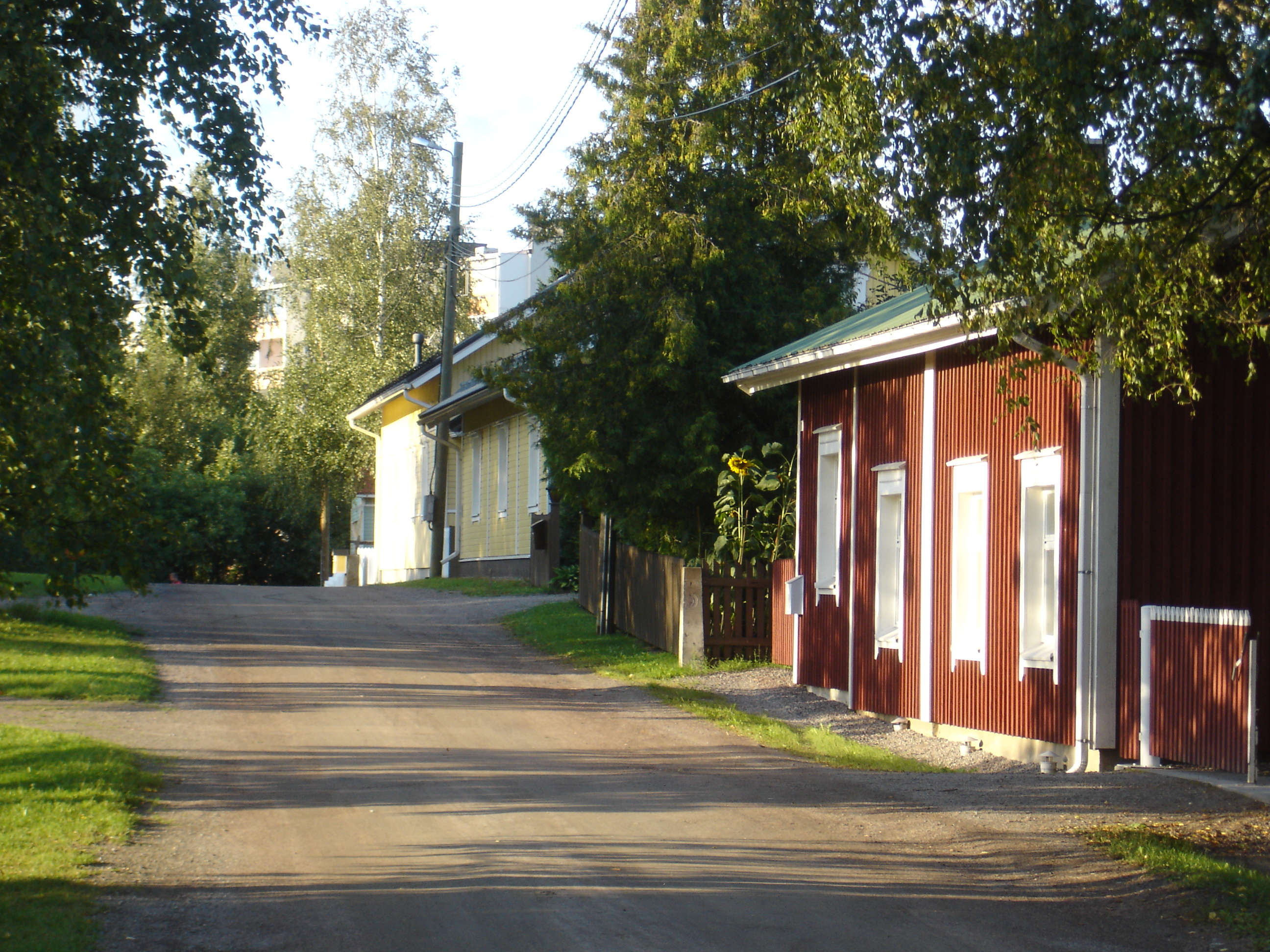 The Kalliomäki wooden house quarter in Forssa